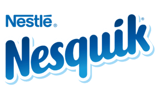 Logo of Nesquik